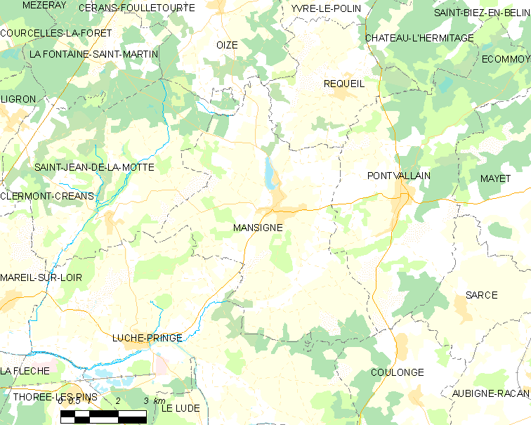 Map of French municipality